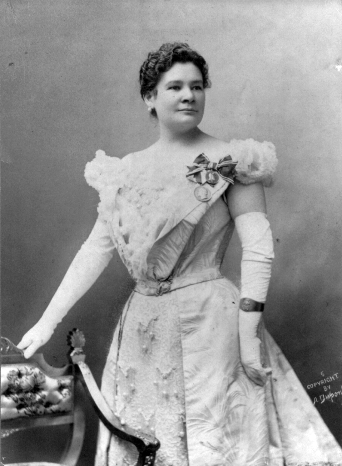 Ernestine Schumann-Heink (1861-1936), German-American contralto